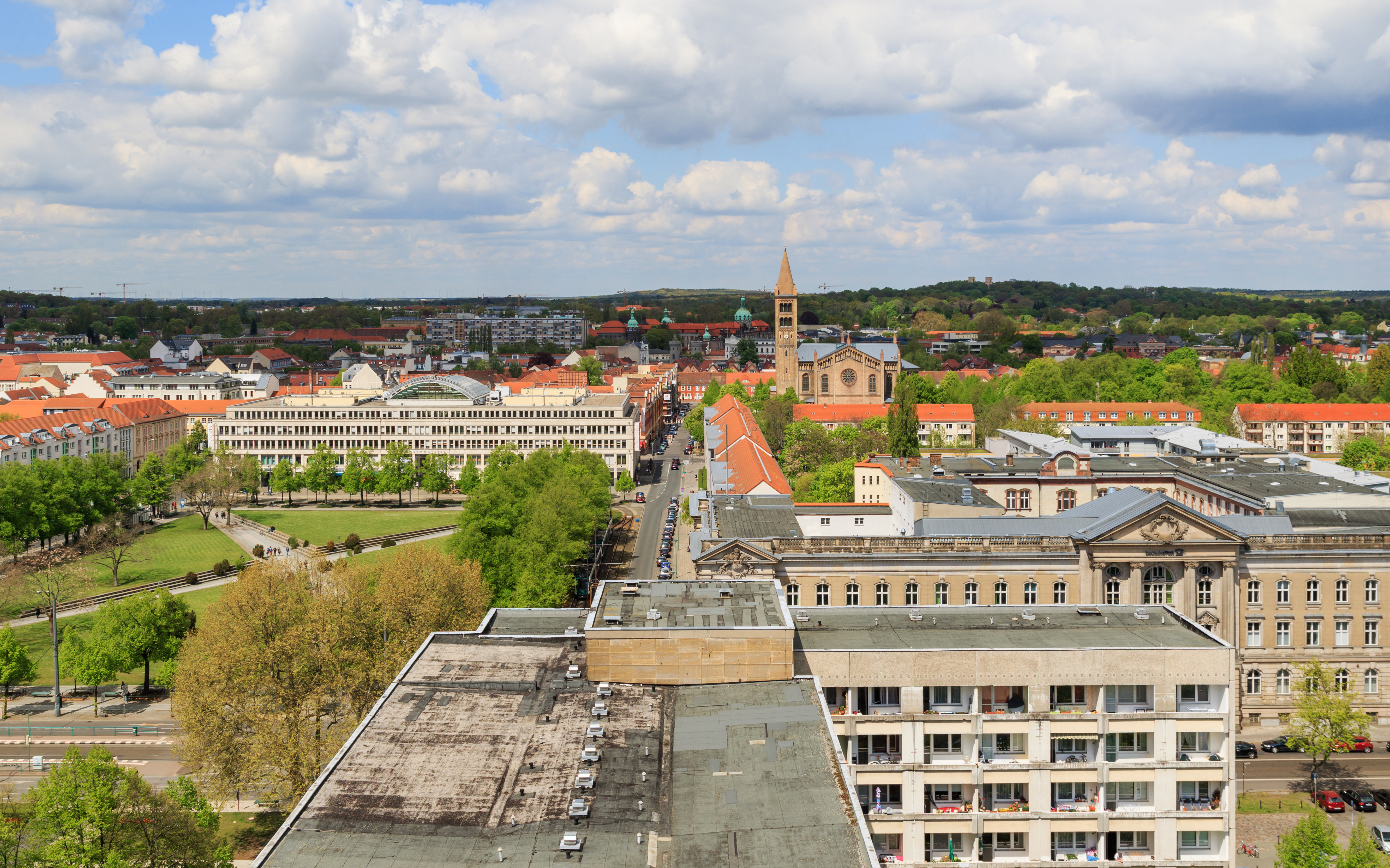 View from St. Nicholas Church in Potsdam